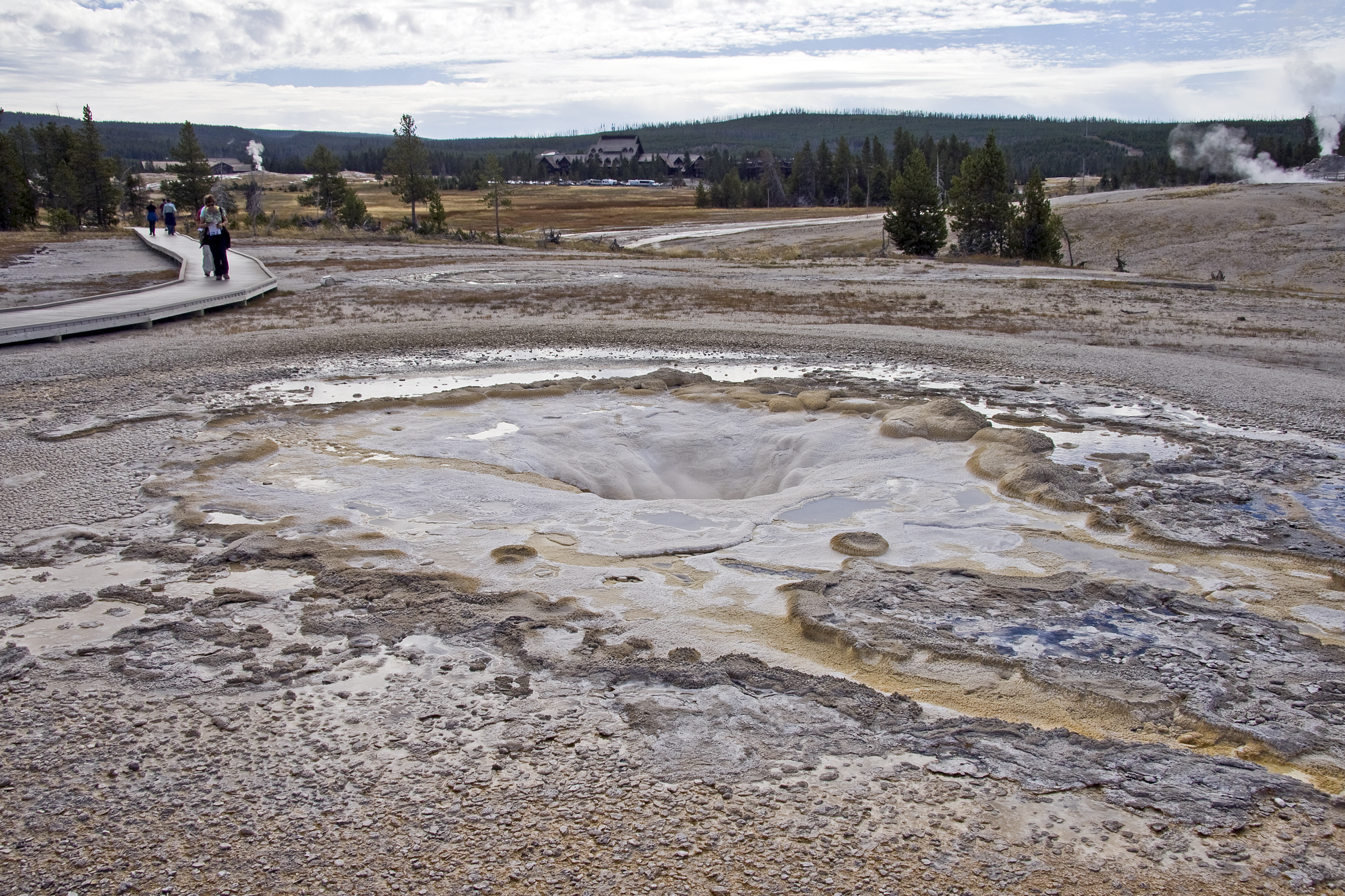 Sawmill Geyser cone in the Upper Geyser Basin, Yellowstone National Park, Wyoming, USA. Old Faithful Inn (center), Old Faithful Lodge and Old Faithful Geyser (left), Castle Geyser cone (right)in the background.